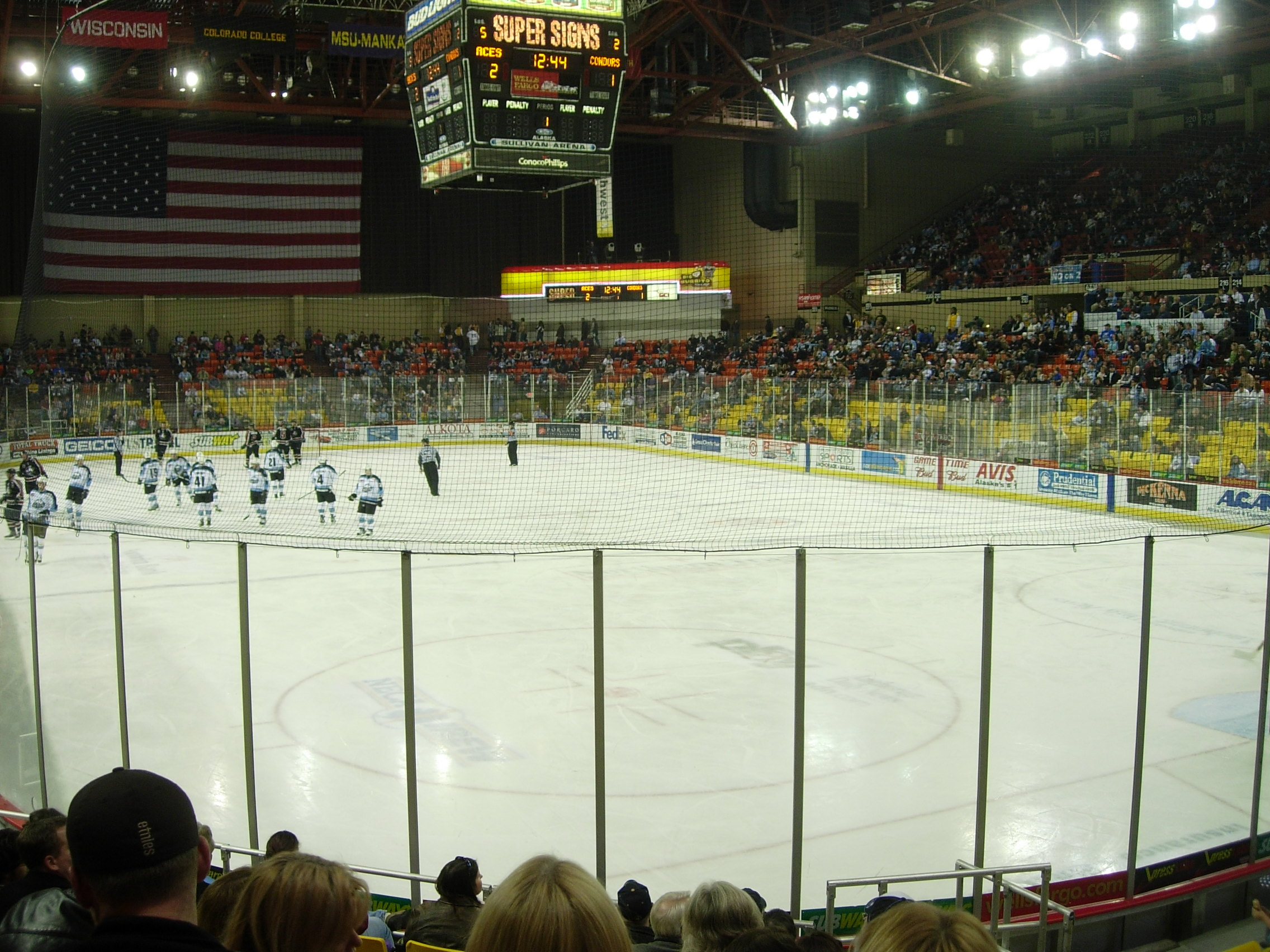 Alaska Aces vs Bakersfield Condors on October 27, 2006